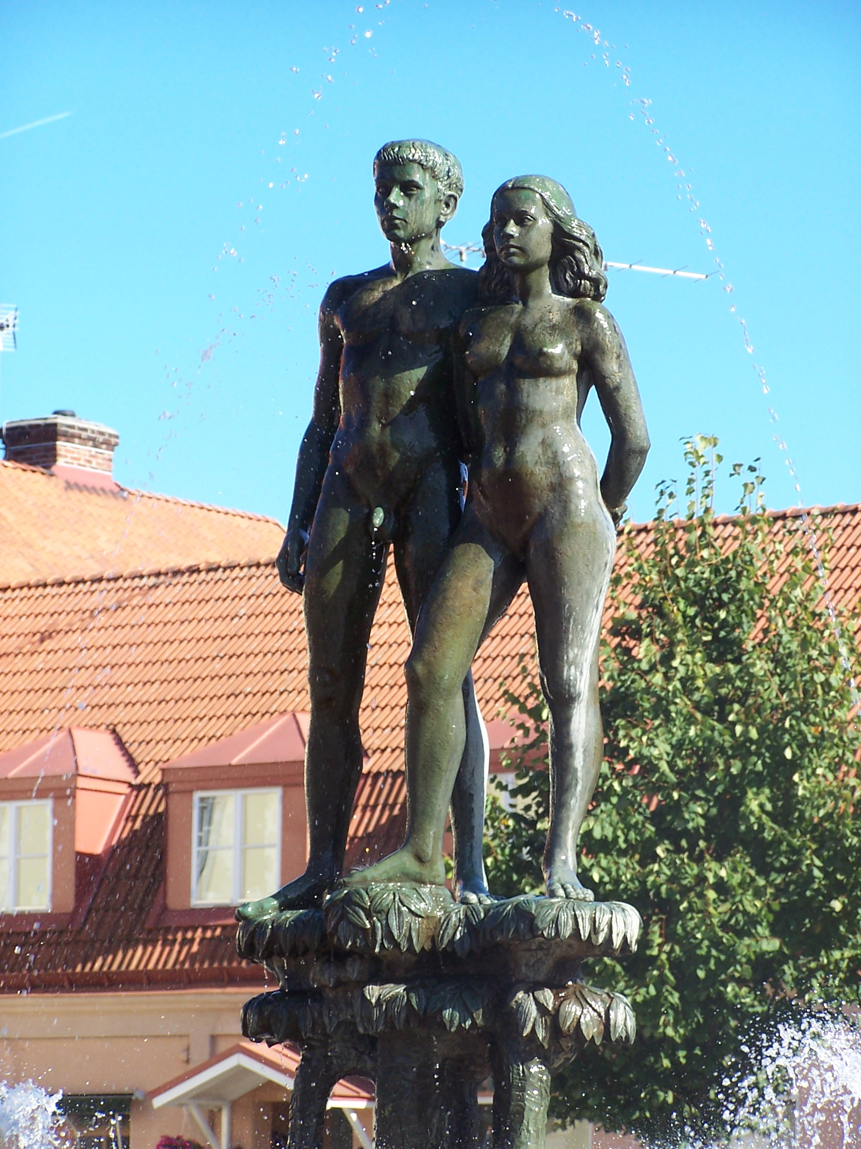 The sculpture "Ask och Embla" (Ask and Embla) by Stig Blomberg 1948, Sölvesborg, Sweden